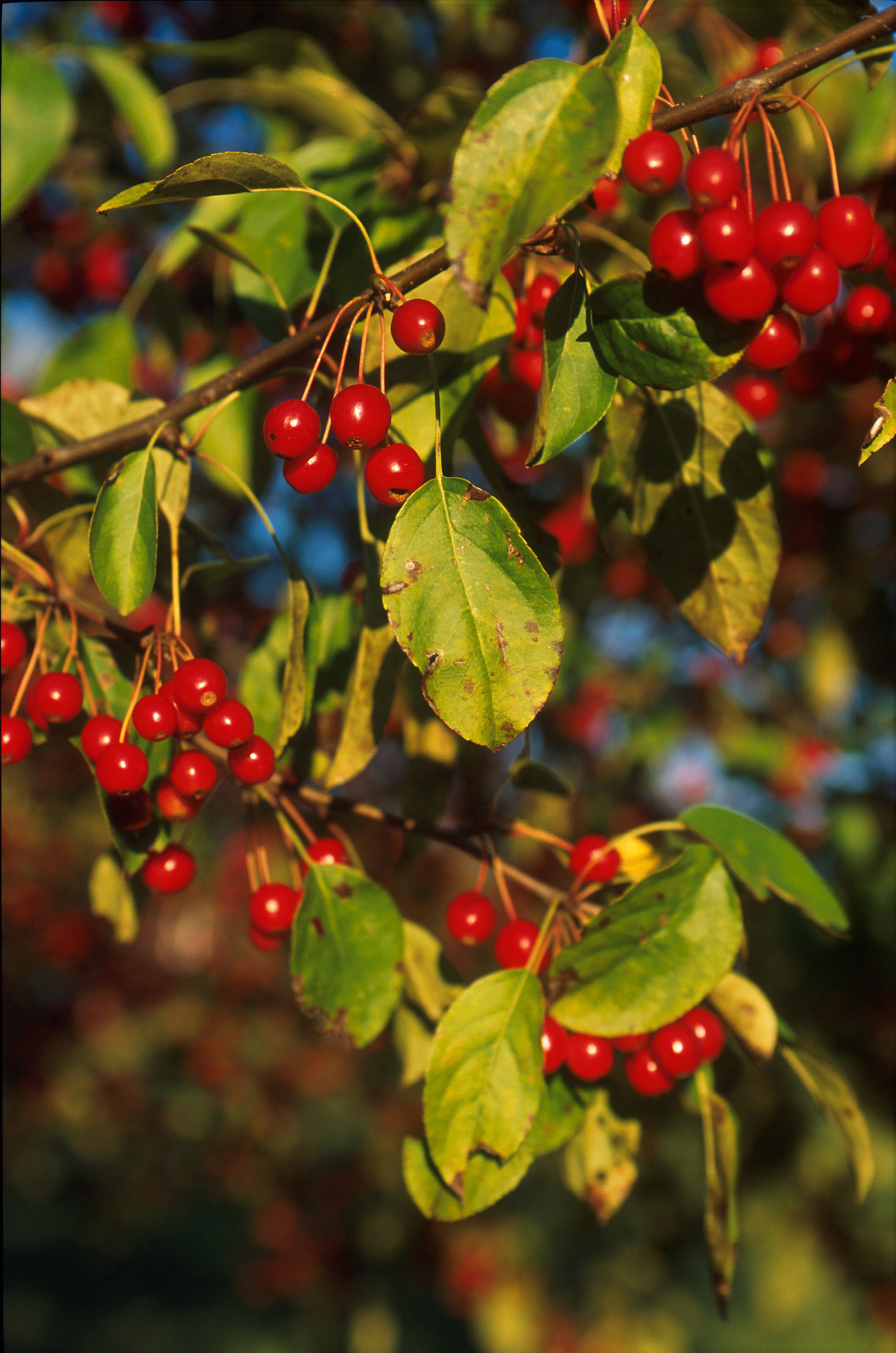 Diseases like apple scab, shown here on crabapple, are costly pests of the $15 billion-a-year floral and nursery industry. Space-age technology is helping scientists provide down-to-earth solutions to problems that vex growers of these ornamental crops.